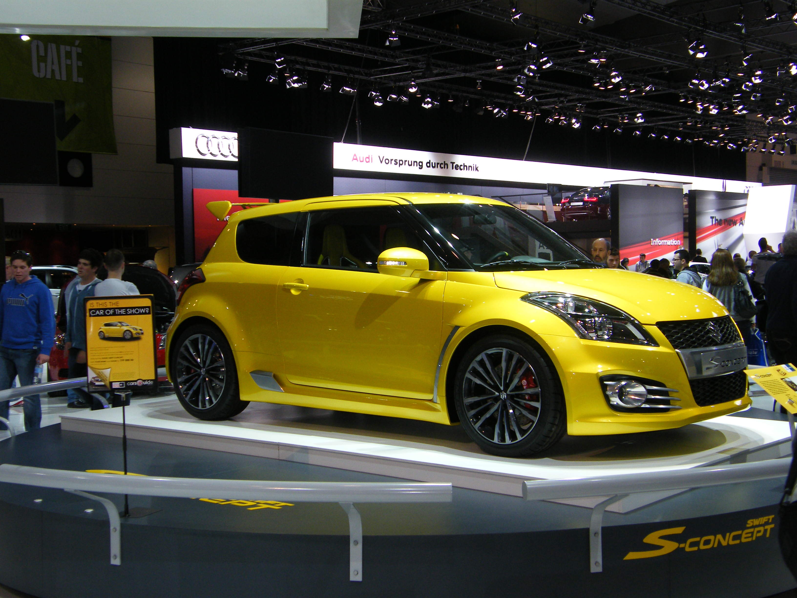 Suzuki Swift S-Concept at the Australian International Auto Show 2011 held at the Melbourne Convention Centre.